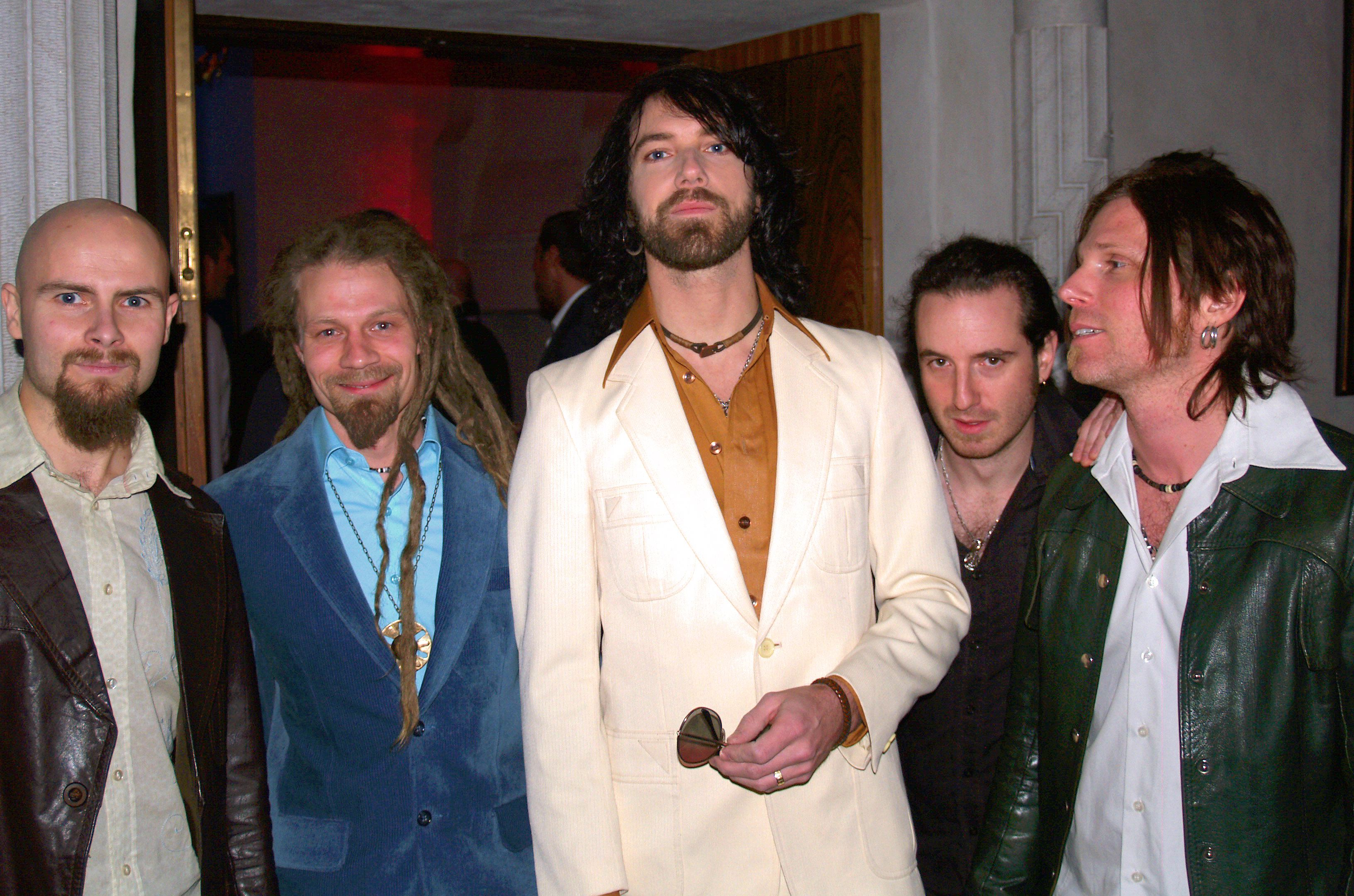 Pain of Salavtion in Melodifestivalen 2010.